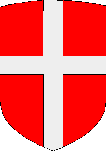 Lesser coat of arms of Tallinn, Estonia